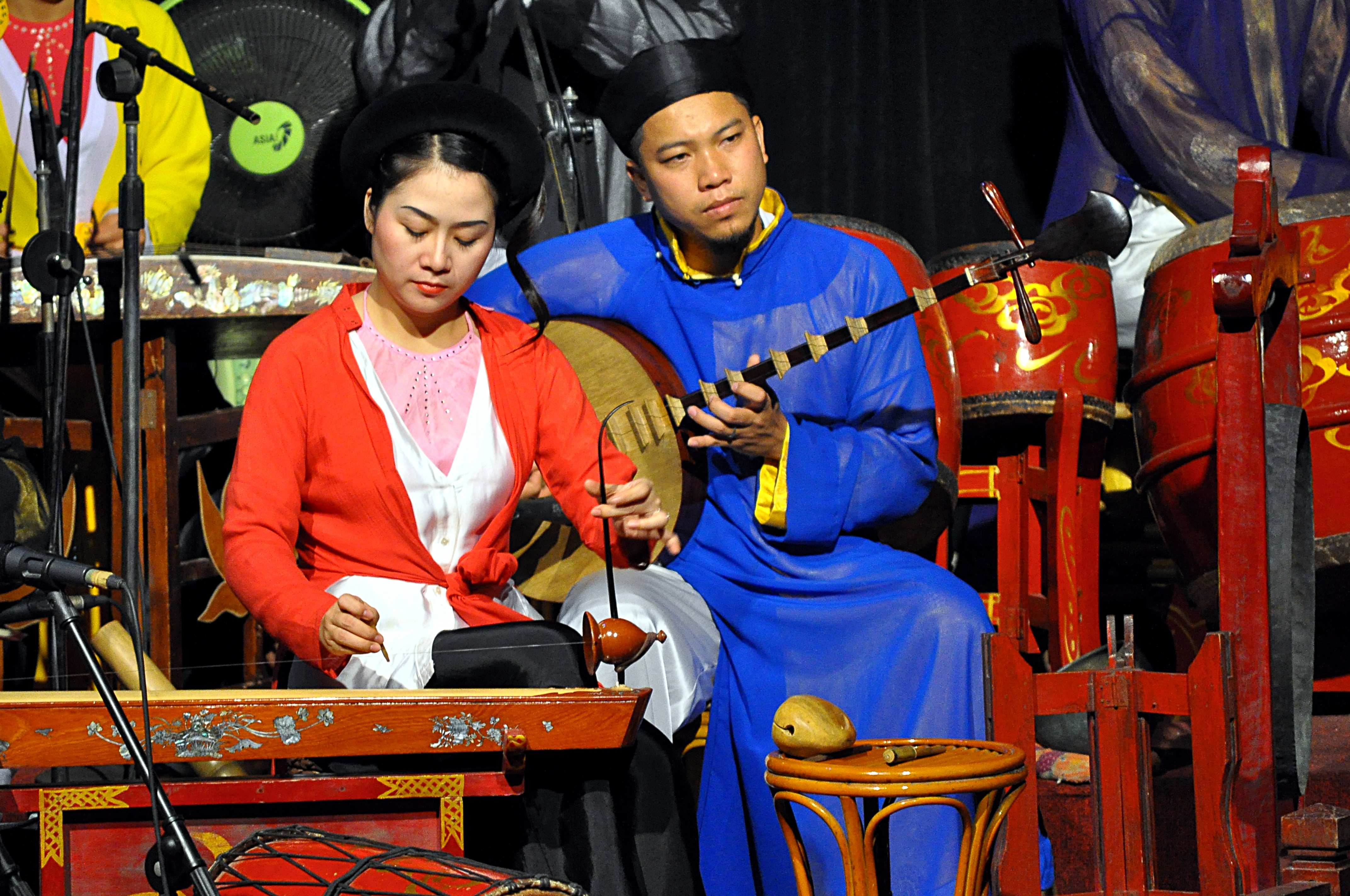 Musicians from the Hanoi water puppet show. Halong Bay, Vietnam For more pictures of Vietnam, click here.